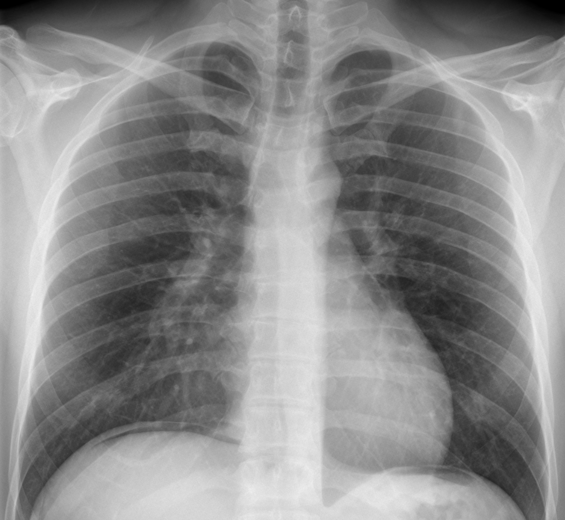 Pneumoperitoneum after surgery.